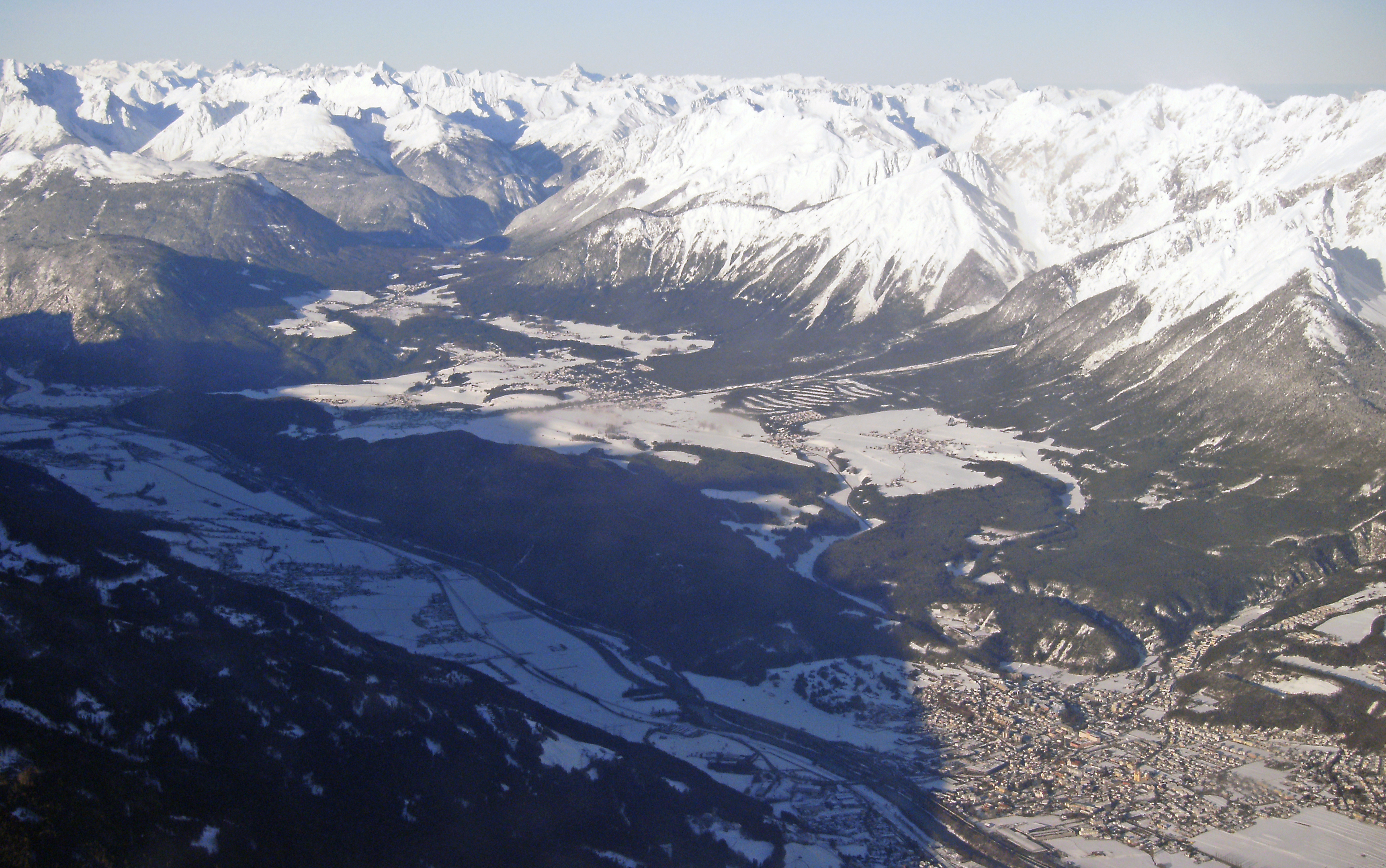 Mieminger Plateau, telfs